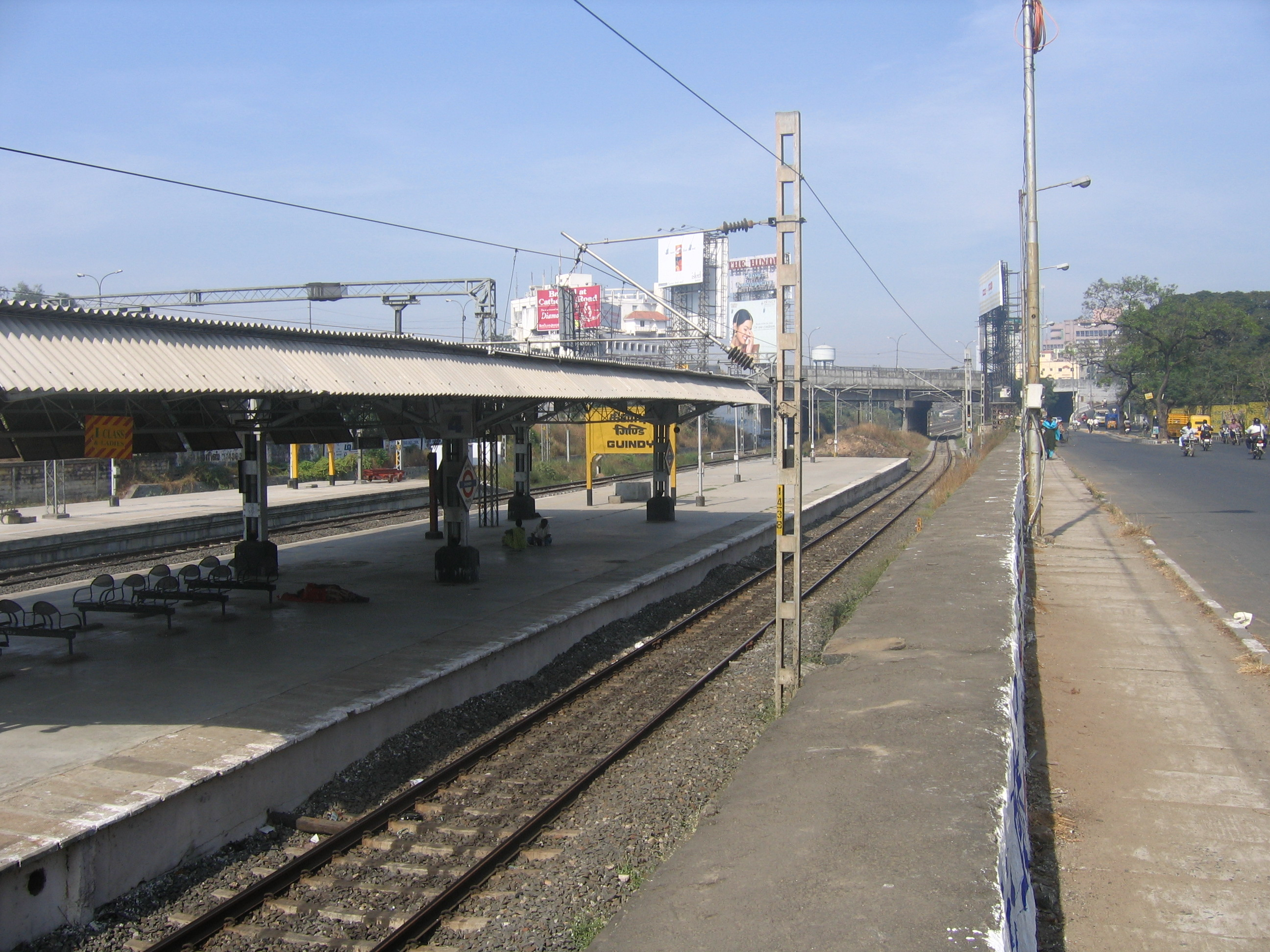 Guindy railway station part of Southern Railway and Chennai Suburban Railway system.